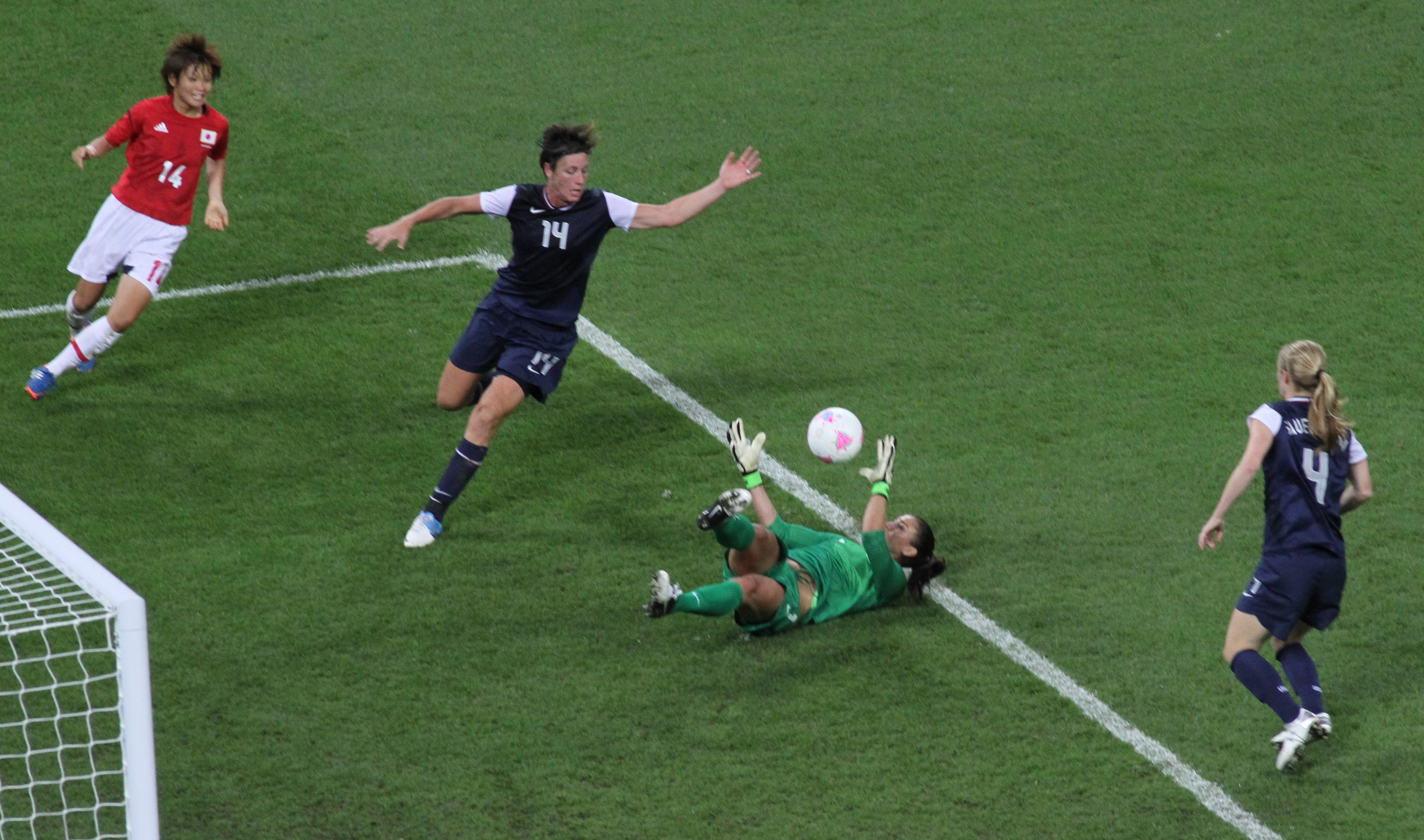 Hope Solo (on the ground) reaches for the ball as Asuna Tanaka (far left), Abby Wambach and Becky Sauerbrunn look on.